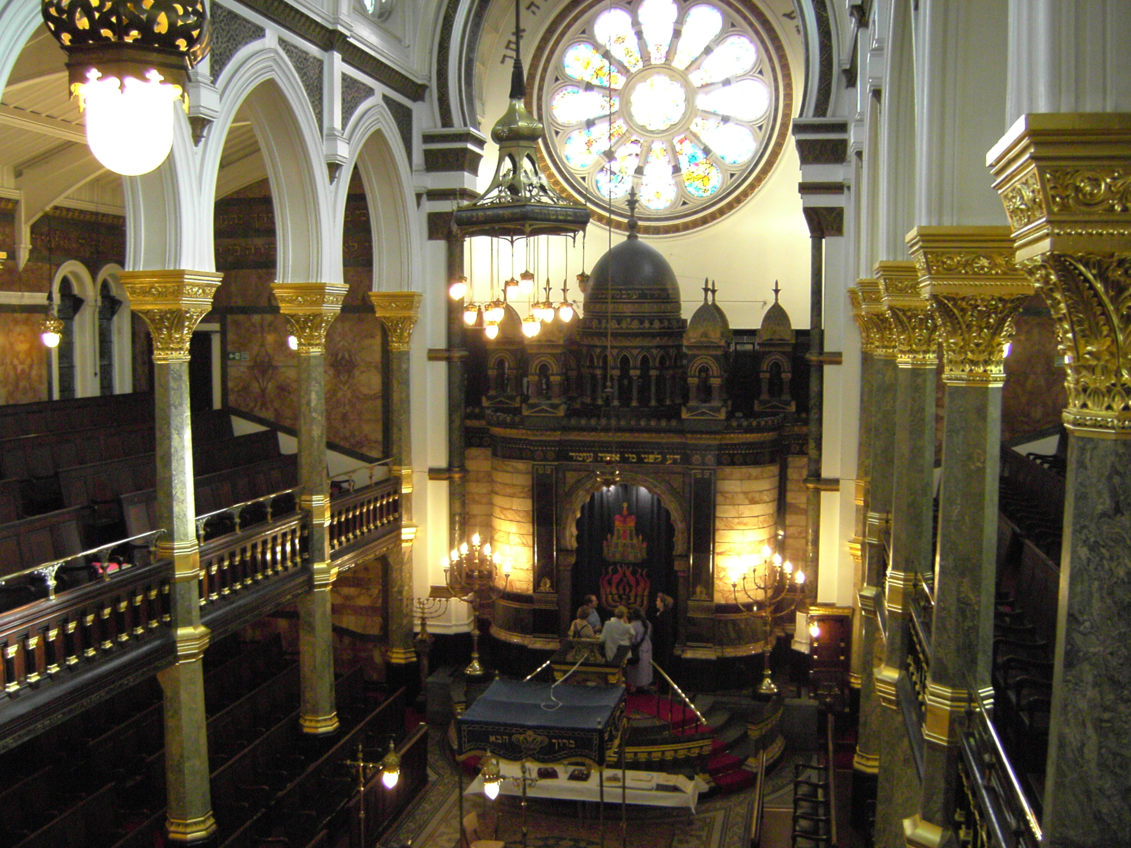 Inside New West End Synagogue, Bayswater, London